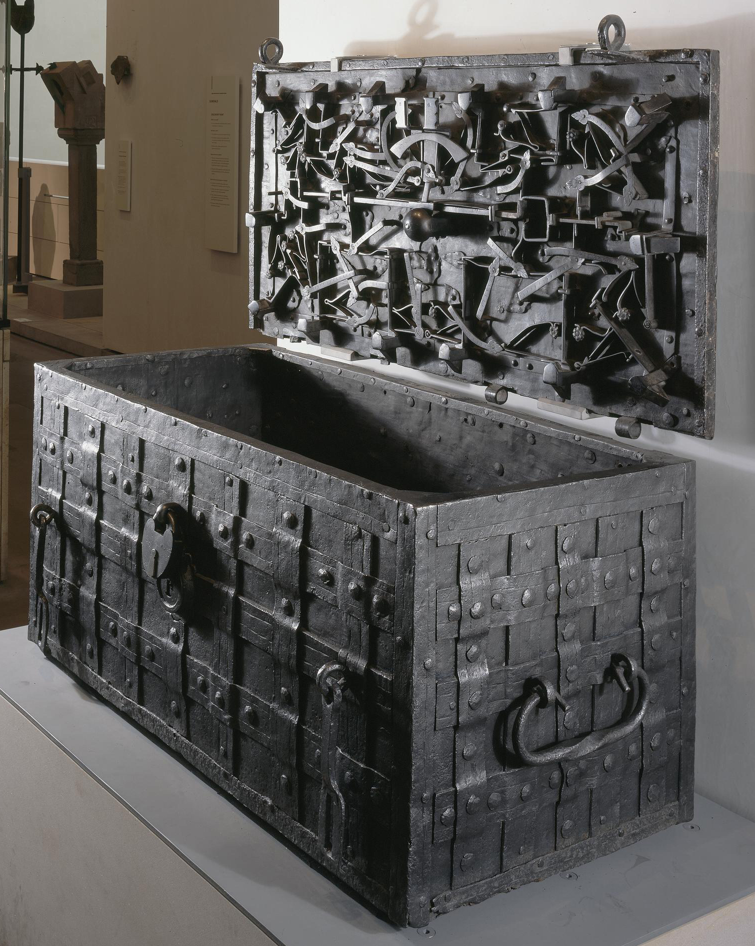 This file was uploaded as part of a partnership between Wikimedia UK and the National Museum of Scotland. This tag does not indicate the copyright status of the attached work. A normal copyright tag is still required. See Commons:Licensing. This work is free and may be used by anyone for any purpose. If you wish to use this content, you do not need to request permission as long as you follow any licensing requirements mentioned on this page.